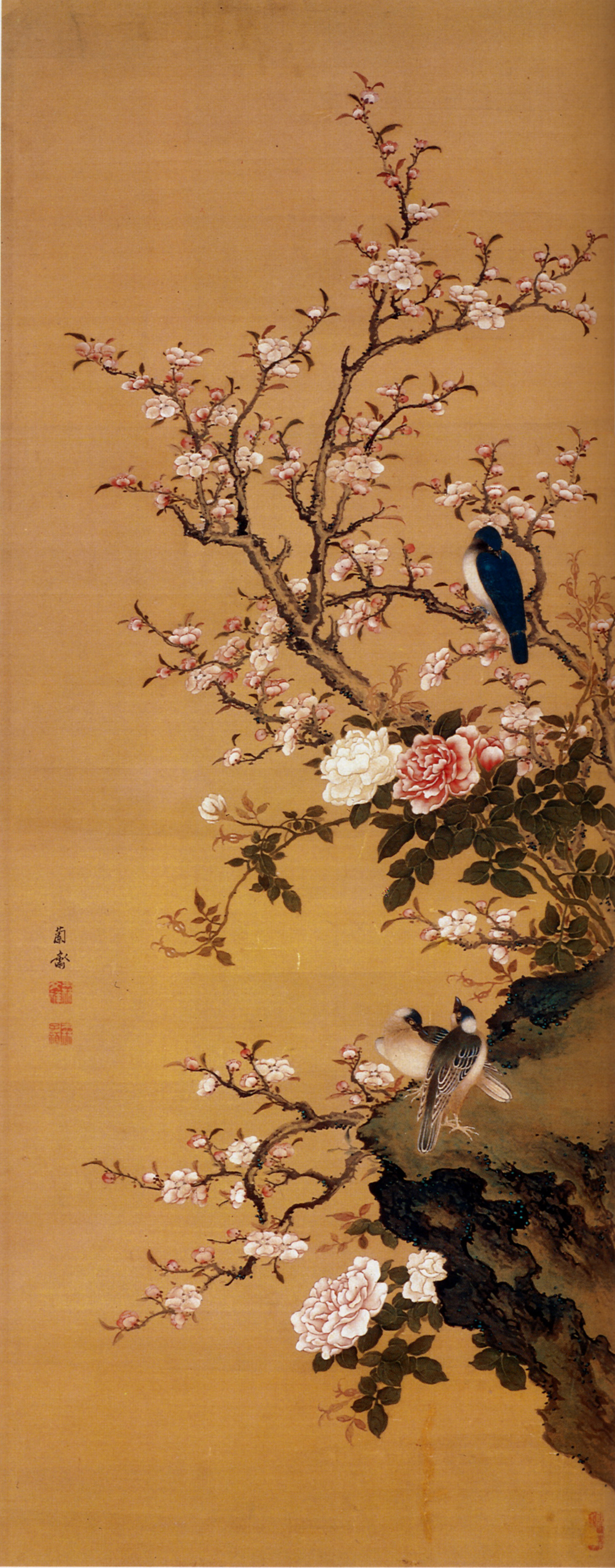 Mori_Ransai_Flowers_and_Birds_A_hanging_scroll_Color_on_silk_Middle_Edo_period_Kobe_City_Museum